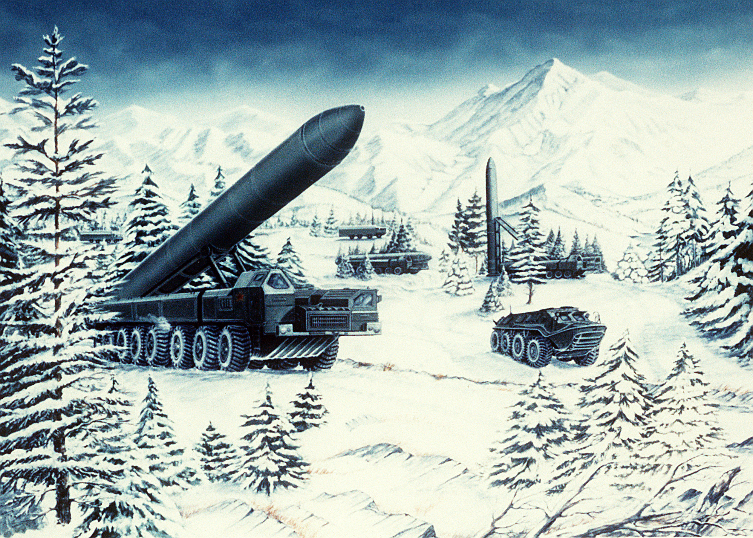 Painting of SS-25 'Sickle' operating in eastern Siberia